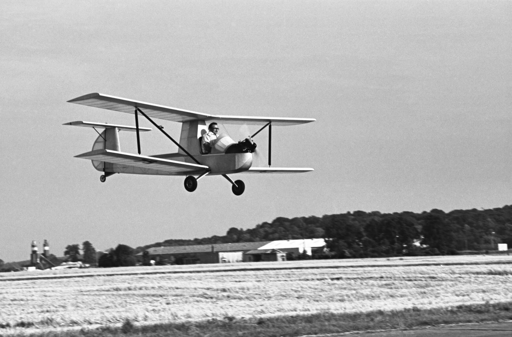 Ultra Leger Motorisé which formed the basis for design of the Aviasud Mistral by François Goethals and Bernard D'Otreppe